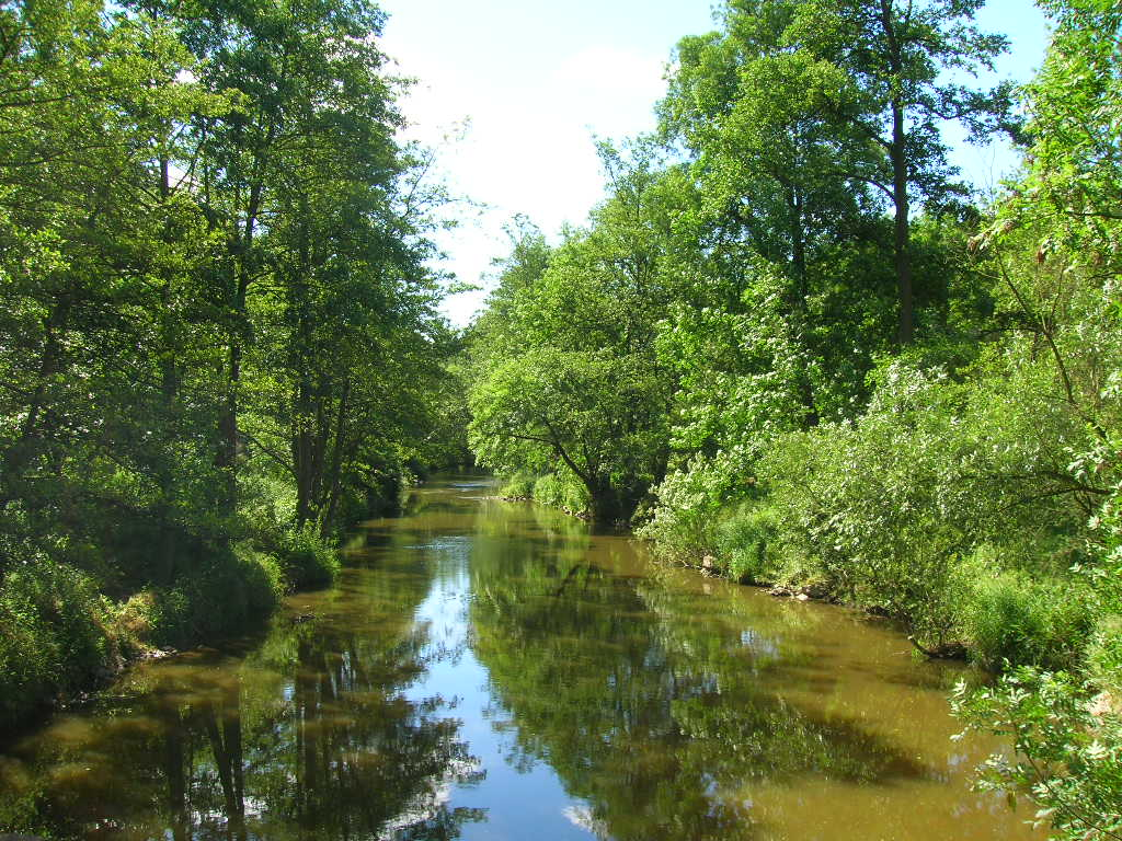 Třebíč-Sokolí. Above the Jihlava River.